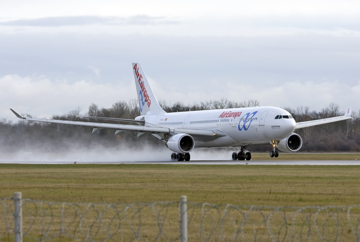 Take-off from Zagreb airport.